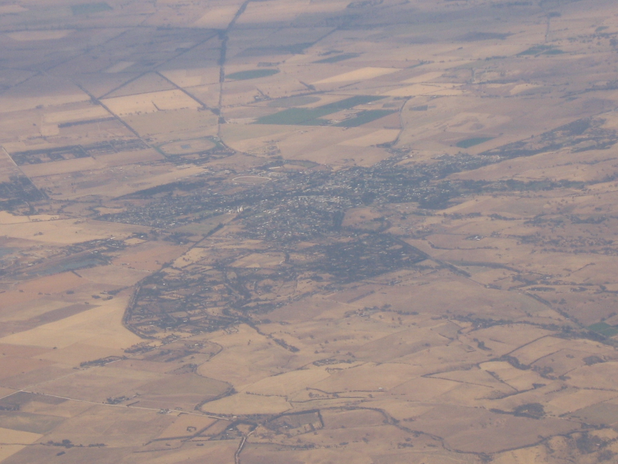 Strathalbyn from the air. Milang road vertically up. Terramin mine just off left side. edit 08/02/2009. Train line to Goolwa/Victor Harbor vertically up. Victor Harbor Road (Sandergrove Rd) top diag right.